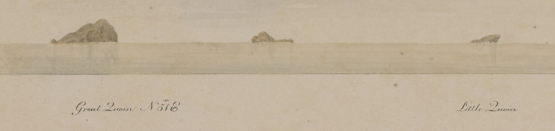 Coast of northeast Musandam with islands including The Quoins